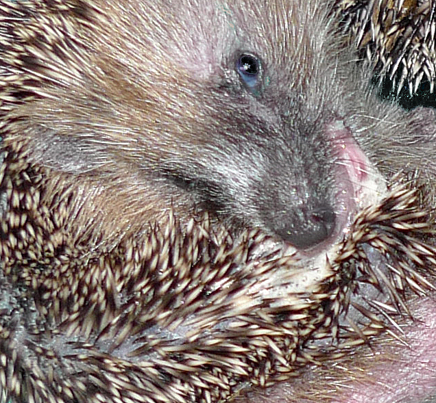 Self-anointing in a rescued juvenile male European hedgehog. Licking the quills of the unfamiliar hedgehog (visible in the back) stimulated copious production of frothy saliva. In this photo the hedgehog is seen placing this saliva on his own back.